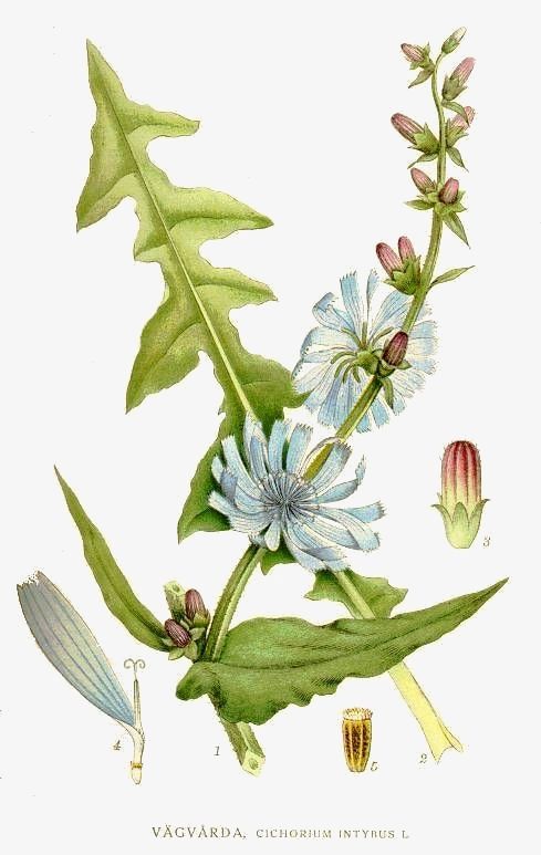 Original Description Vägvårda, Cichorium intybus L.